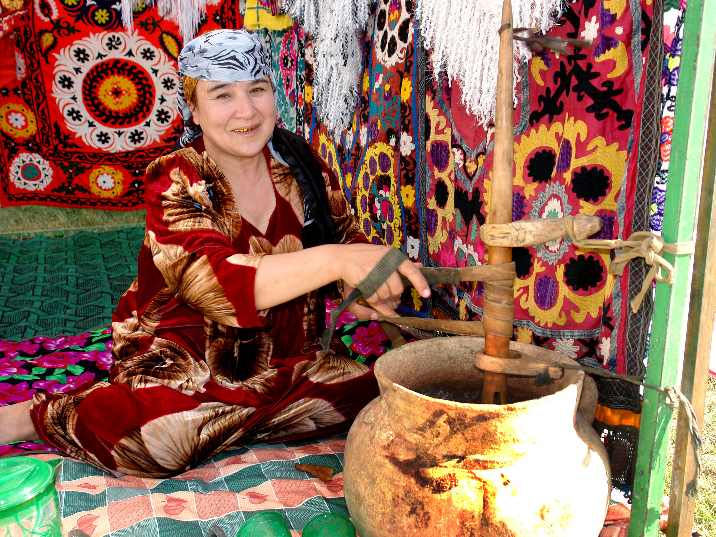 Seamstresses folk ornaments. Tajikistan